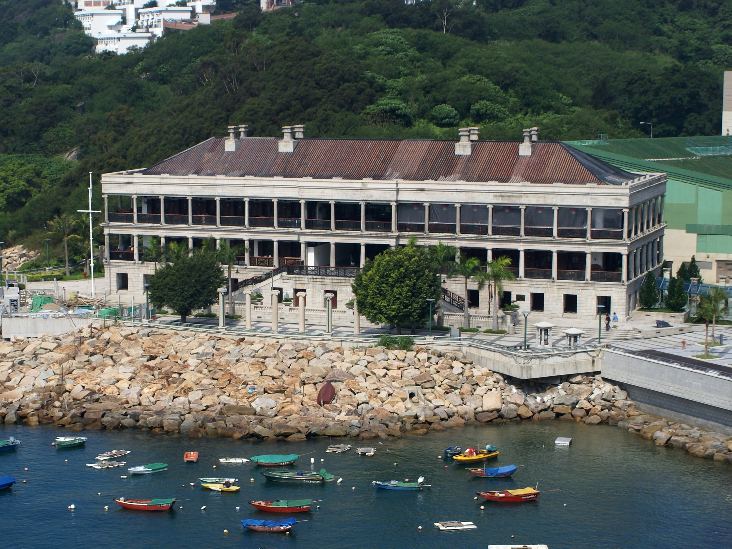 Daytime picture of Murray House in Stanley, Hong Kong.